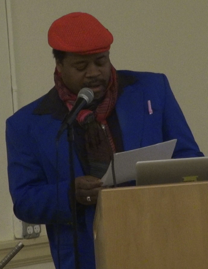 Greg Tate reading at NYU in 2013 Feb.